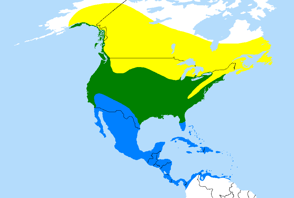 Distribution of Belted Kingfisher Megaceryle alcyon, from Sibley Guide and National Geographic Guide Yellow: breeding summer visitor Green: breeding resident Blue: non-breeding winter visitor